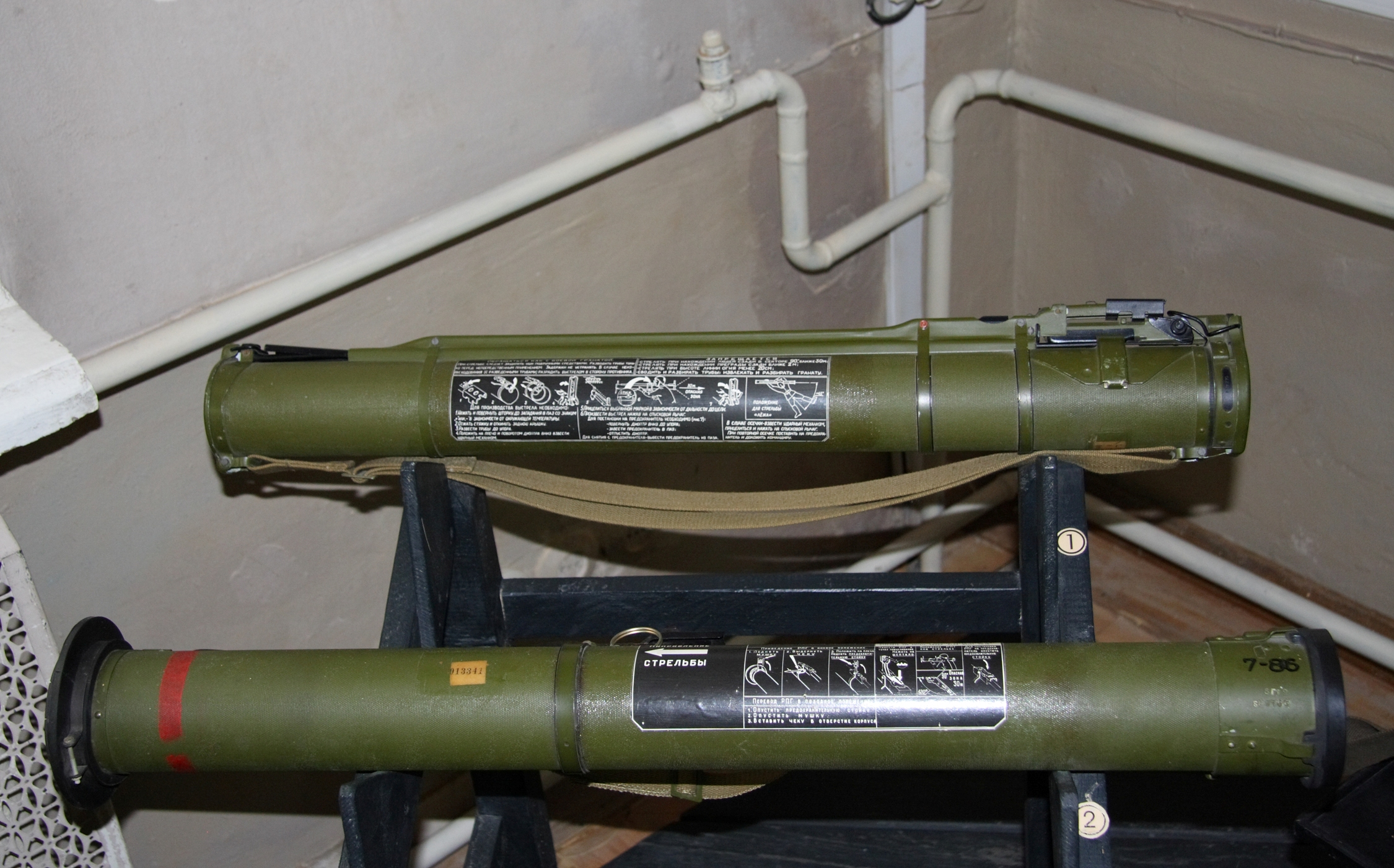 RPG-18 and RPG-26